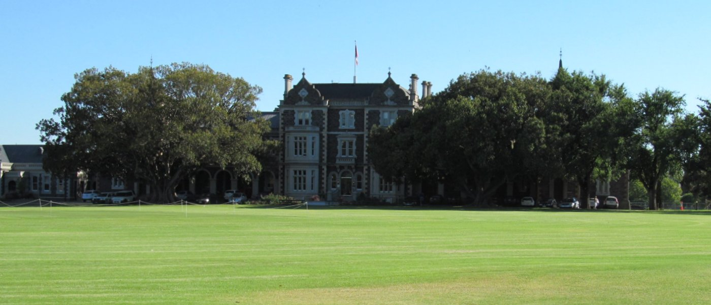 Prince Alfred College as seen from Dequetteville Terrace, Kent Town, Adelaide.